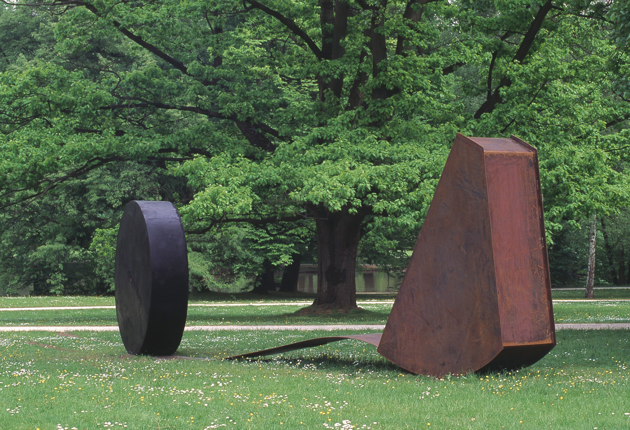 Sculpture by Michael Zwingmann